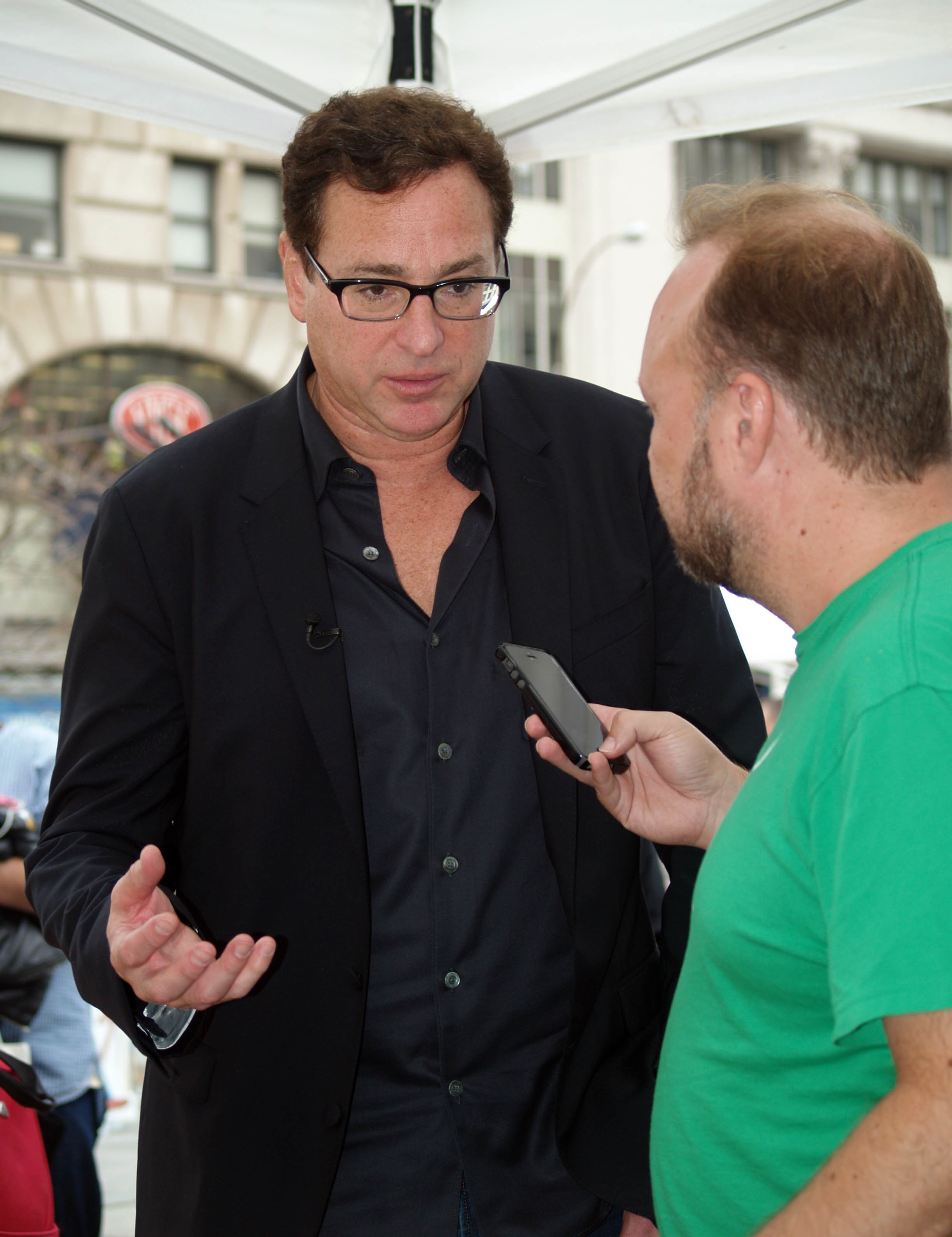 Actor/comedian-turned-novelist Bob Saget, following the "Comedians as Authors" panel at the the 2014 Brooklyn Book Festival. This photo was created by Luigi Novi. It is not in the public domain, and use of this file outside of the licensing terms is a copyright violation.